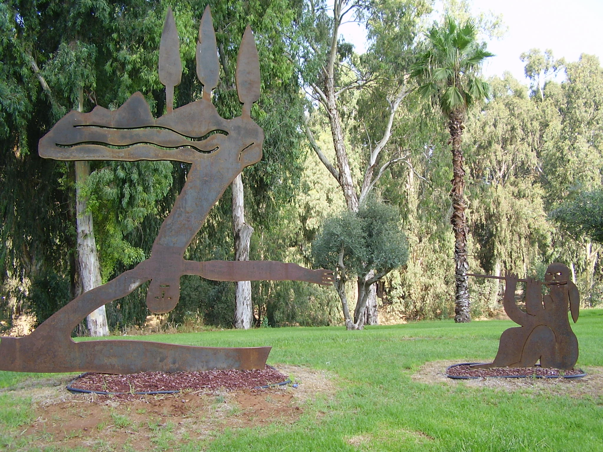 undergrounds memrial, ramat gan, israel